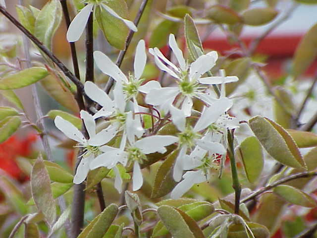 Species: Amelanchier grandiflora Family: Rosaceae Image No. 3